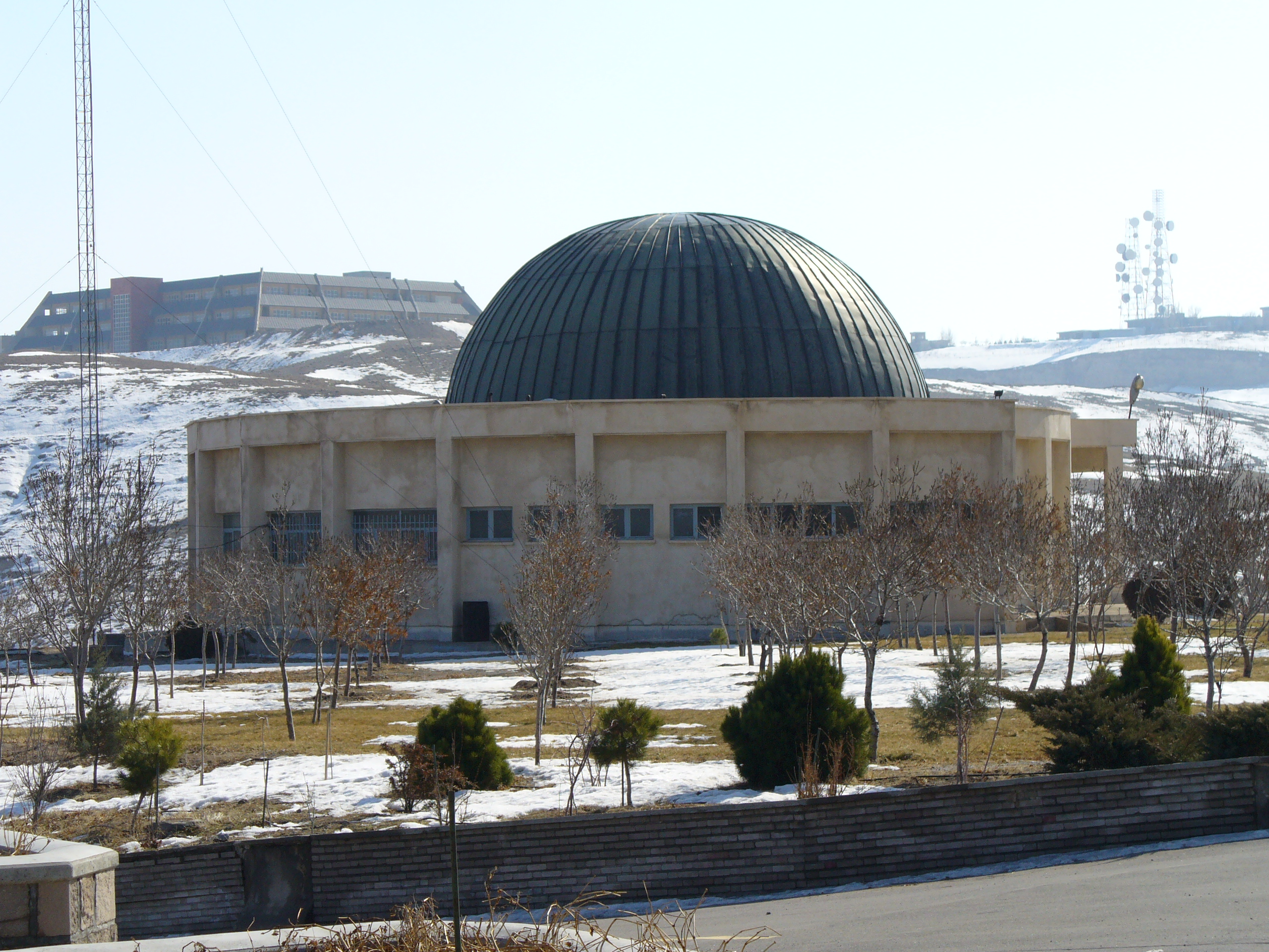 University of Tabriz Planetarium